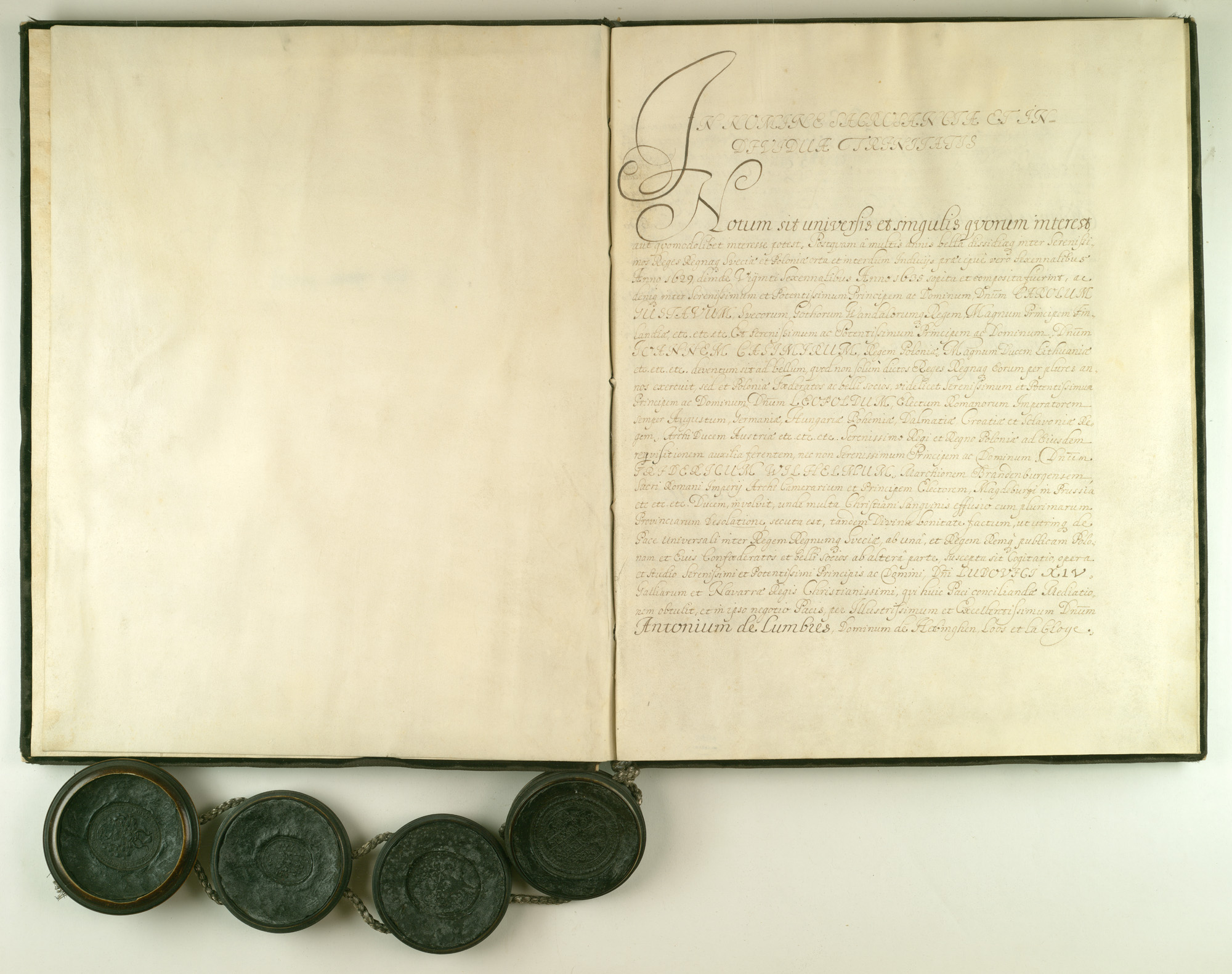 Swedish commissioners make peace with the Polish King John II Casimir Vasa, Holy Roman Emperor Leopold I Habsburg and Duke of Prussia Frederick William I Hohenzollern.